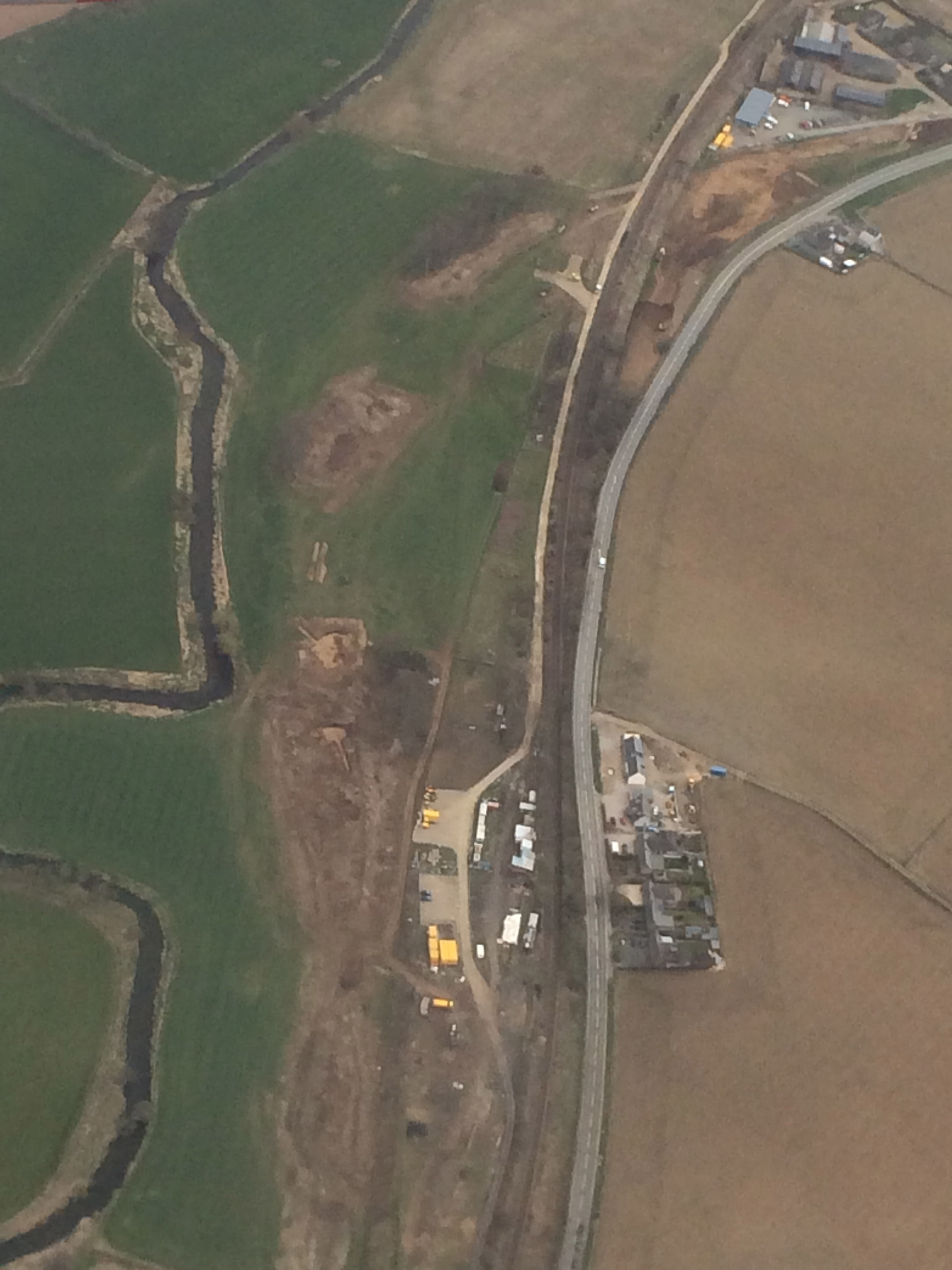 An areal view of the construction of the inveramsay bridge over the Aberdeen to Inverness railway line.